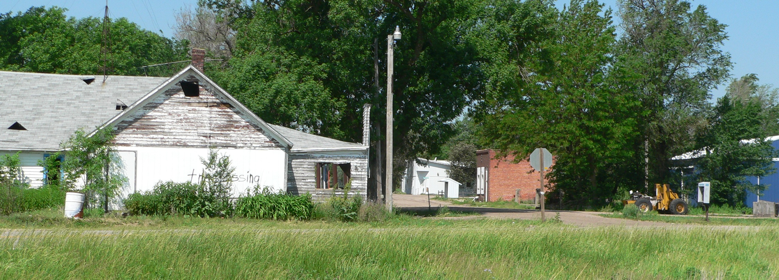 Downtown Cotesfield, Nebraska, looking westward from east of Nebraska Highway 11.